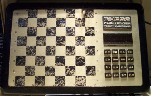 Chess computer Fidelity Chess Challenger Voice